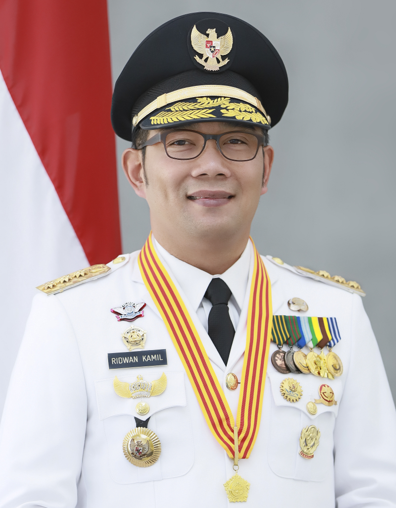 Portrait of Mochammad Ridwan Kamil as Governor of West Java